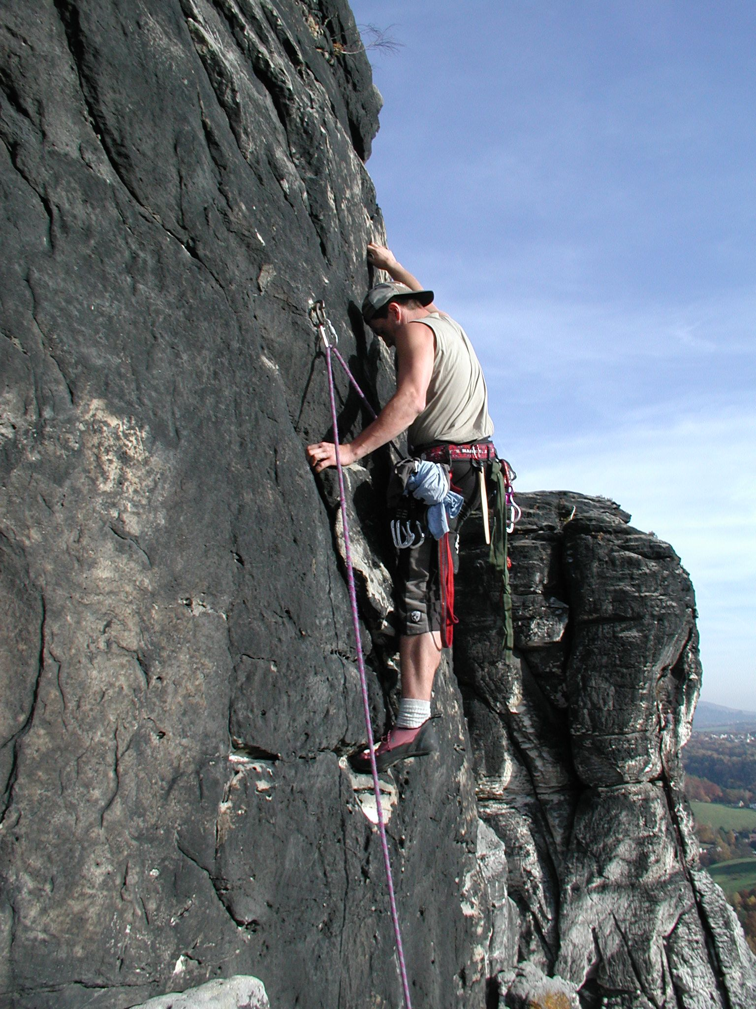 Climbers in the Saxon Switzerland